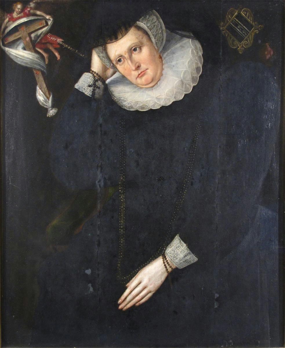 Late C16th, c. 1592, oil portrait of a member of the Browne and or Dormer family, (35 x 29 inches). Mary, the daughter of Sir William Dormer (d.1575) by his second wife, Dorothy, the daughter of Anthony Catesby, esquire), who married Anthony Browne (22 July 1552 – 29 June 1592). OR: Elizabeth Browne (d.1631), who married Robert Dormer, the son of Sir William Dormer by his second wife, Dorothy Catesby (d.1613).